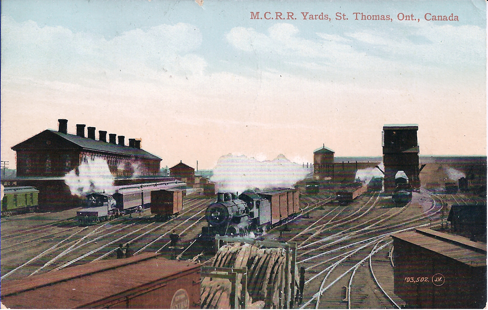 Postcard showing the MCRR/CASO yard behind the station in St. Thomas, ON.